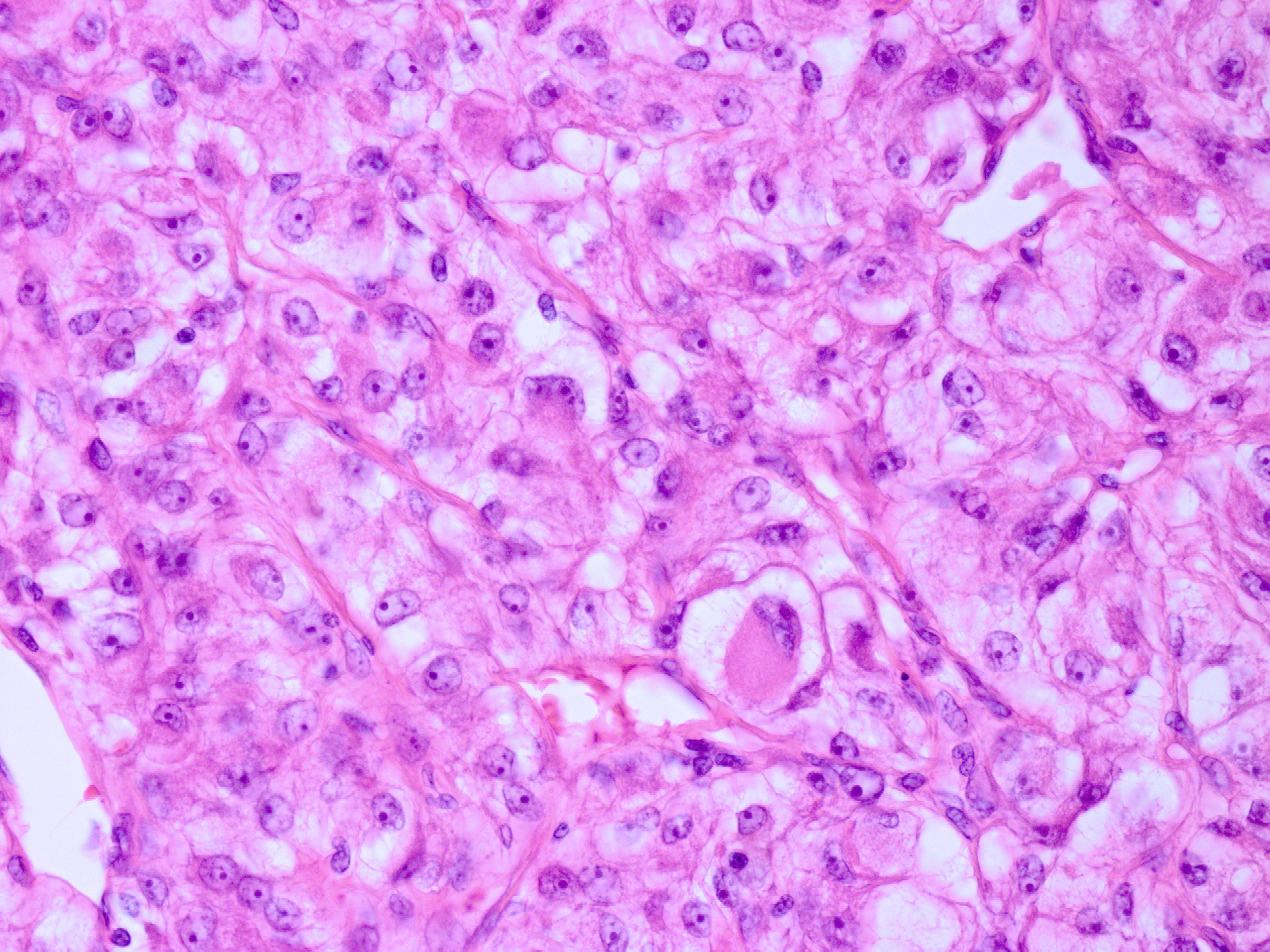 Histopathology of rhabdoid meningioma (grade III WHO)